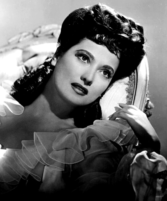 Original publicity photo of Merle Oberon